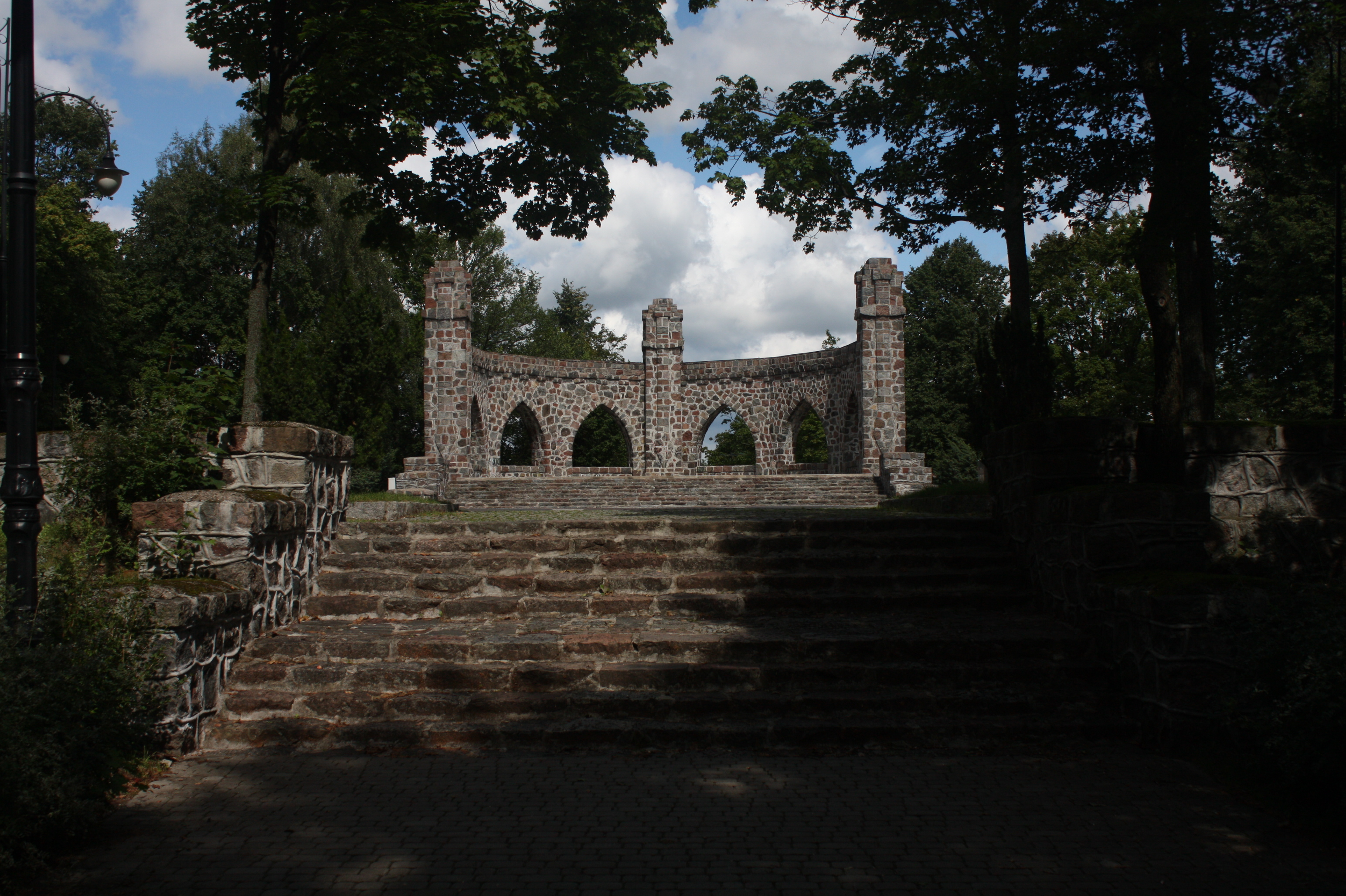 This photo of Warmian-Masurian Voivodeship was taken during Wikiexpedition 2012 set up by Wikimedia Polska Association. You can see all photographs in category Wikiekspedycja 2012. The making of this document was supported by Wikimedia Polska.